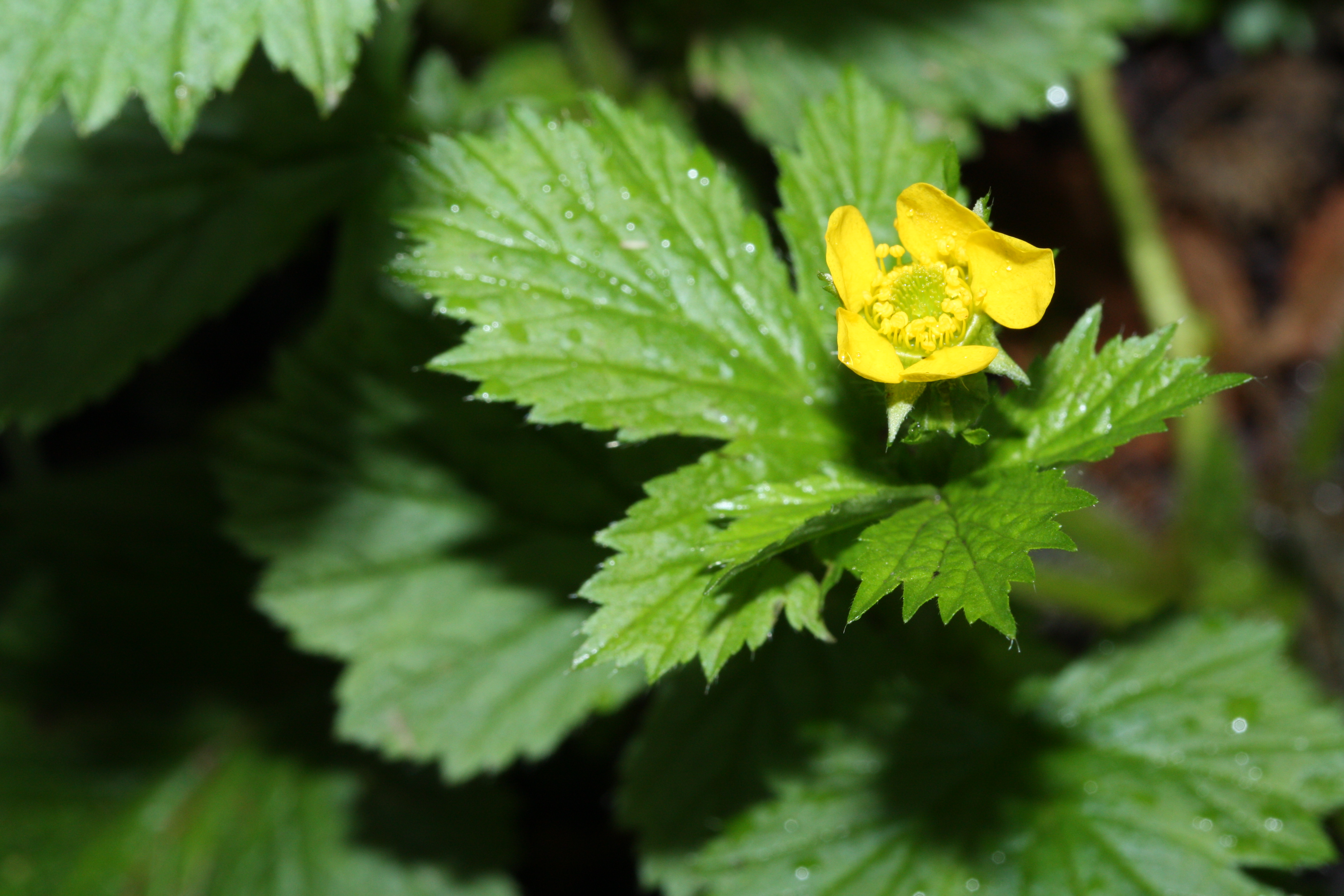 Largeleaf Avens, Bigleaf Avens